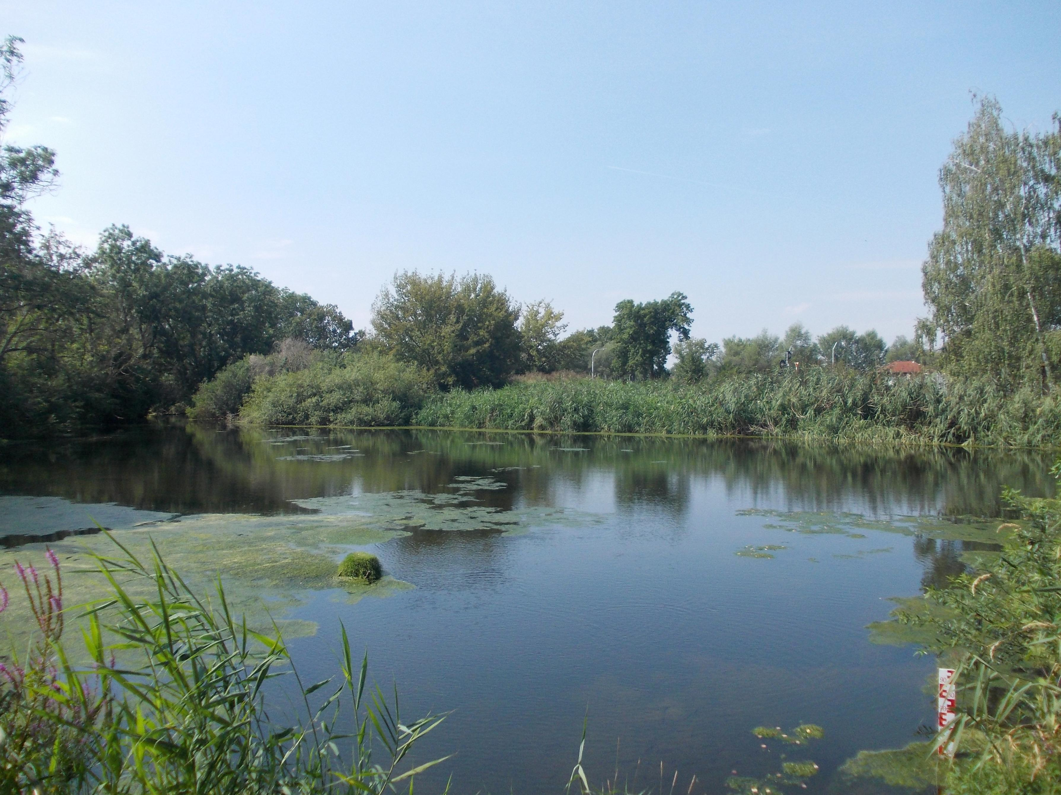 Pond in the nature reserve "Abtei und Saaleaue bei Planena" (Halle/Saale, Saxony-Anhalt)